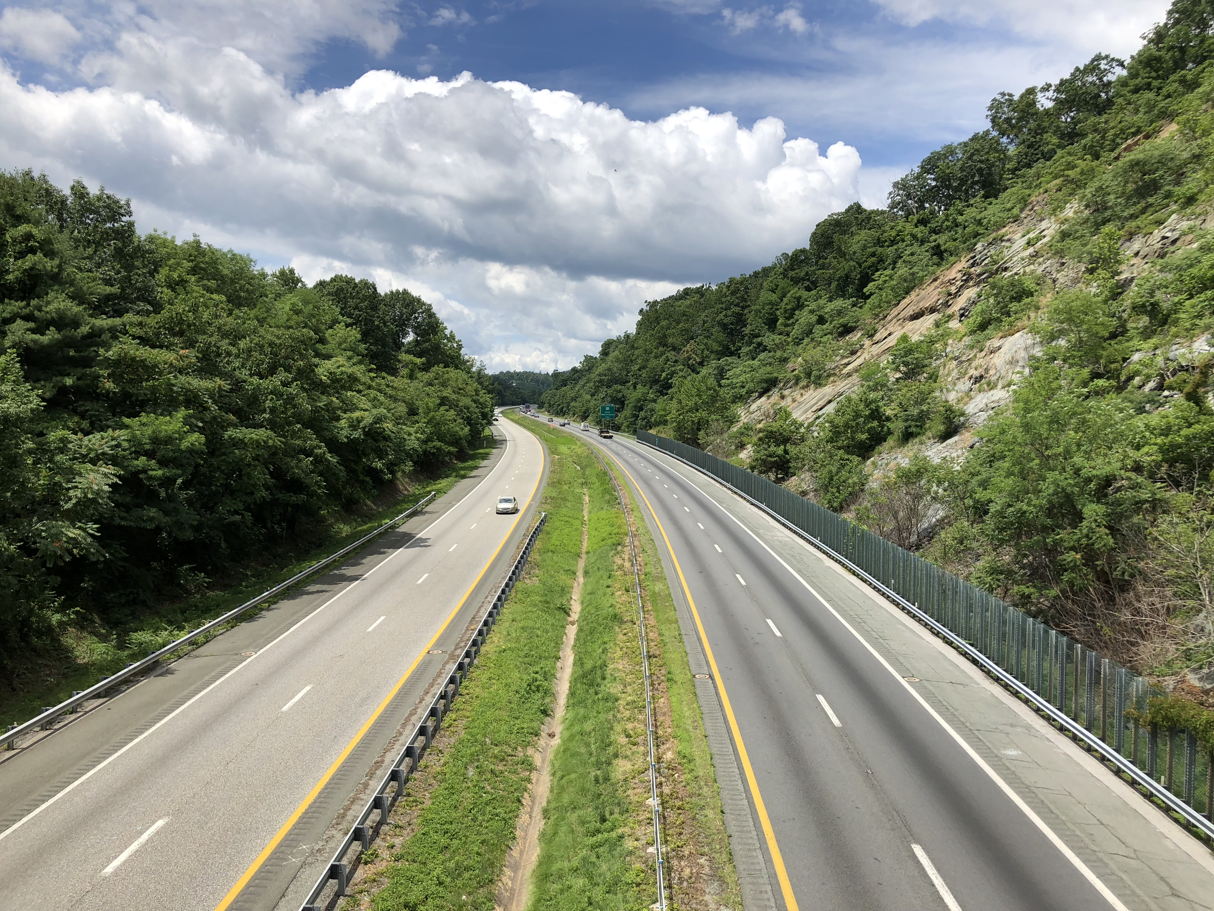 View west along Interstate 64 from the overpass for Virginia State Route F182 (Royal Orchard Drive) in Afton, Nelson County, Virginia